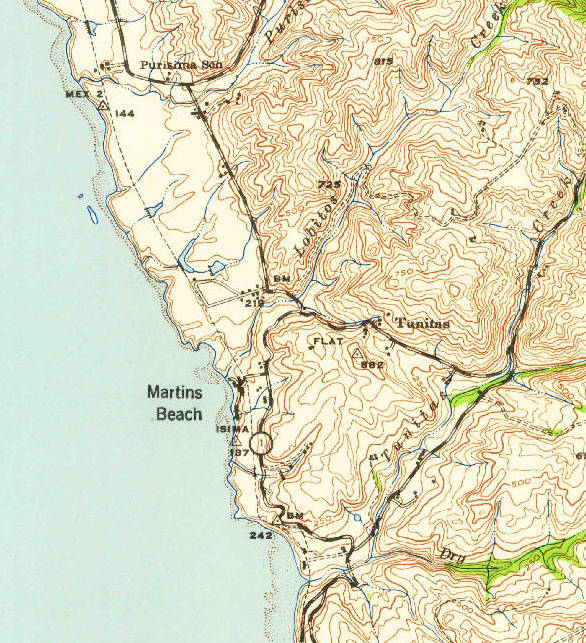 Highway 1 originally passed through Tunitas; it was later rerouted to the west of the village, closer to the old railroad route. Today, the portion of the former state highway through Lobitos has become Verde Road.